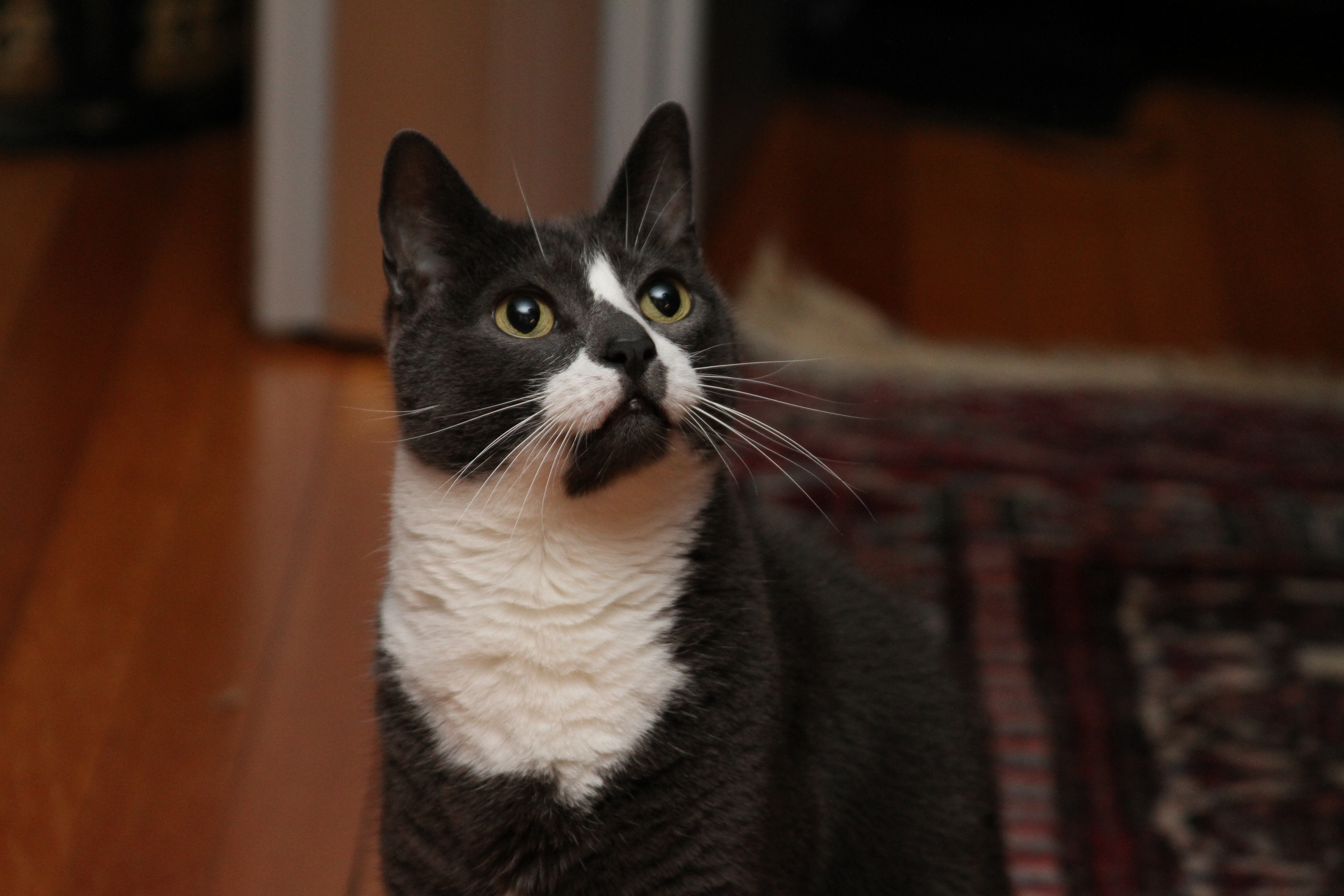 Socks and Tweetie